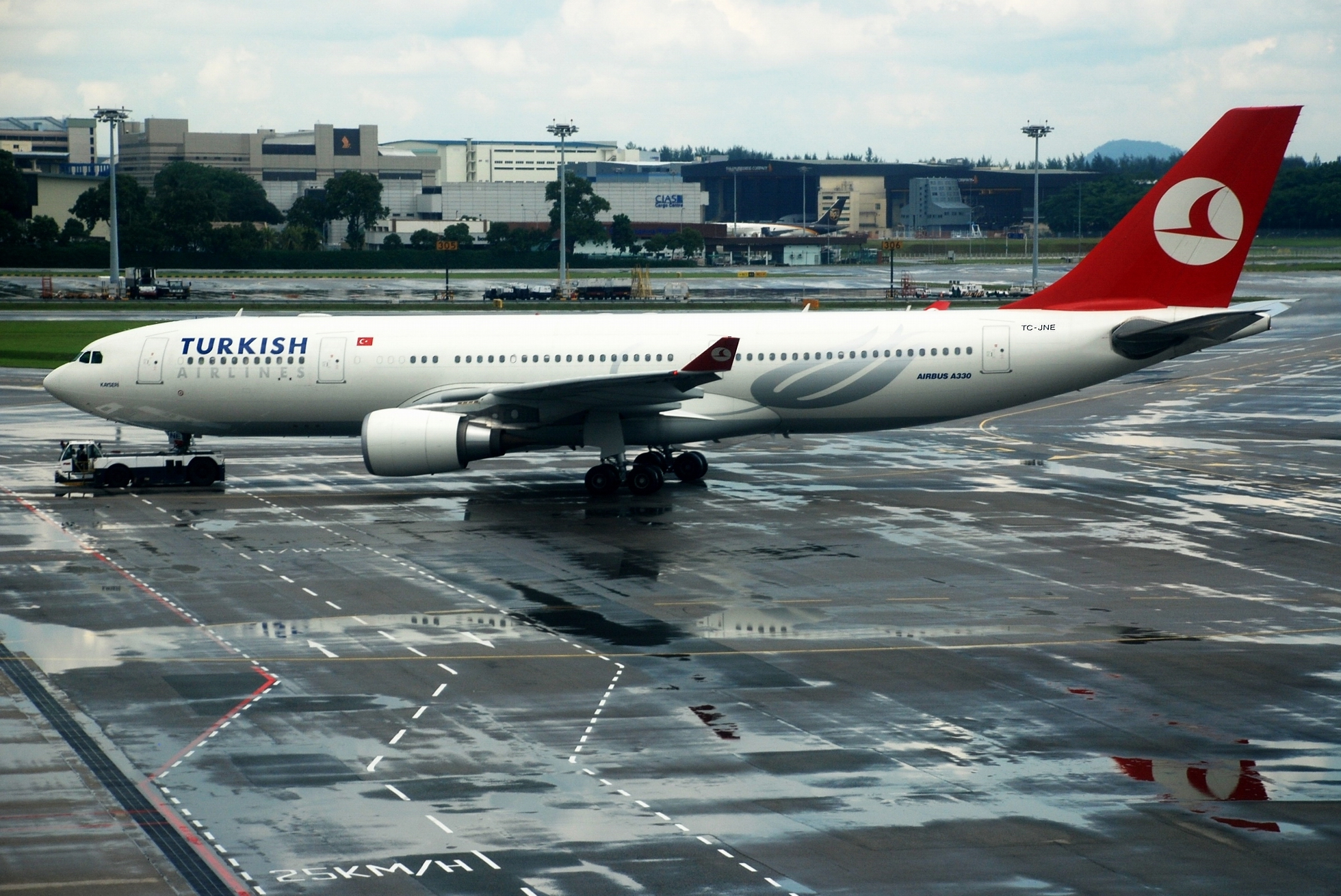 Turkish Airlines Airbus A330-200 (TC-JNE) at Singapore Changi Airport.